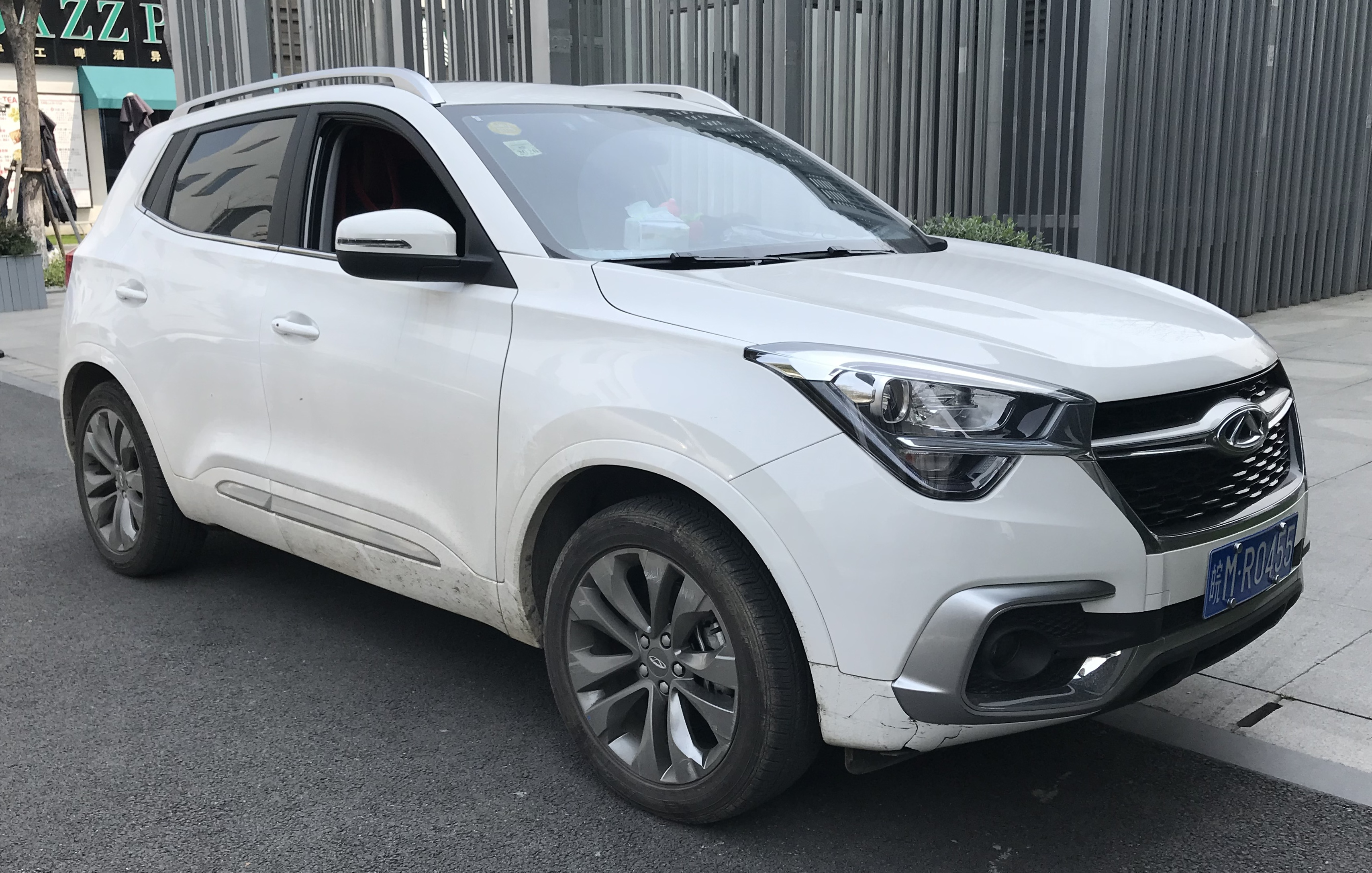 Chery Tiggo 5X